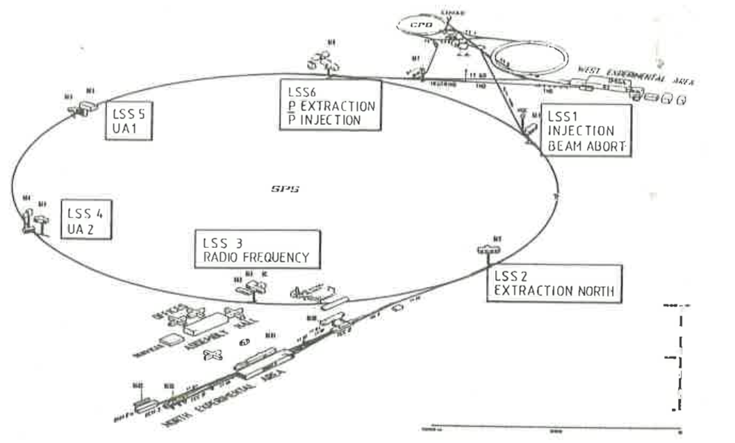 Illustration of the SppbarS layout, with UA1, UA2 experiment and preaccelerators.